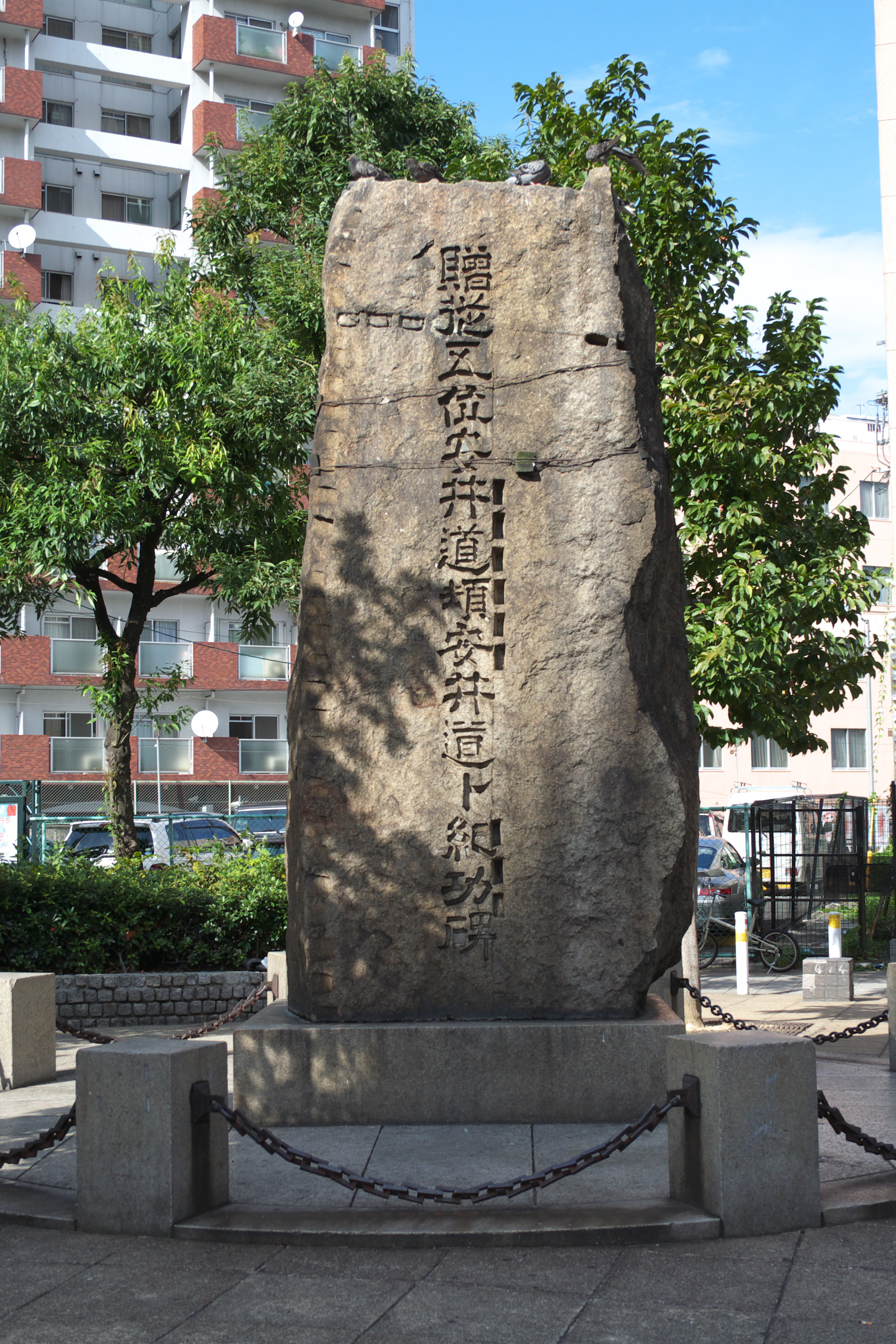 A monument of Yasui Dōton and Dōboku(Osaka City, JAPAN)